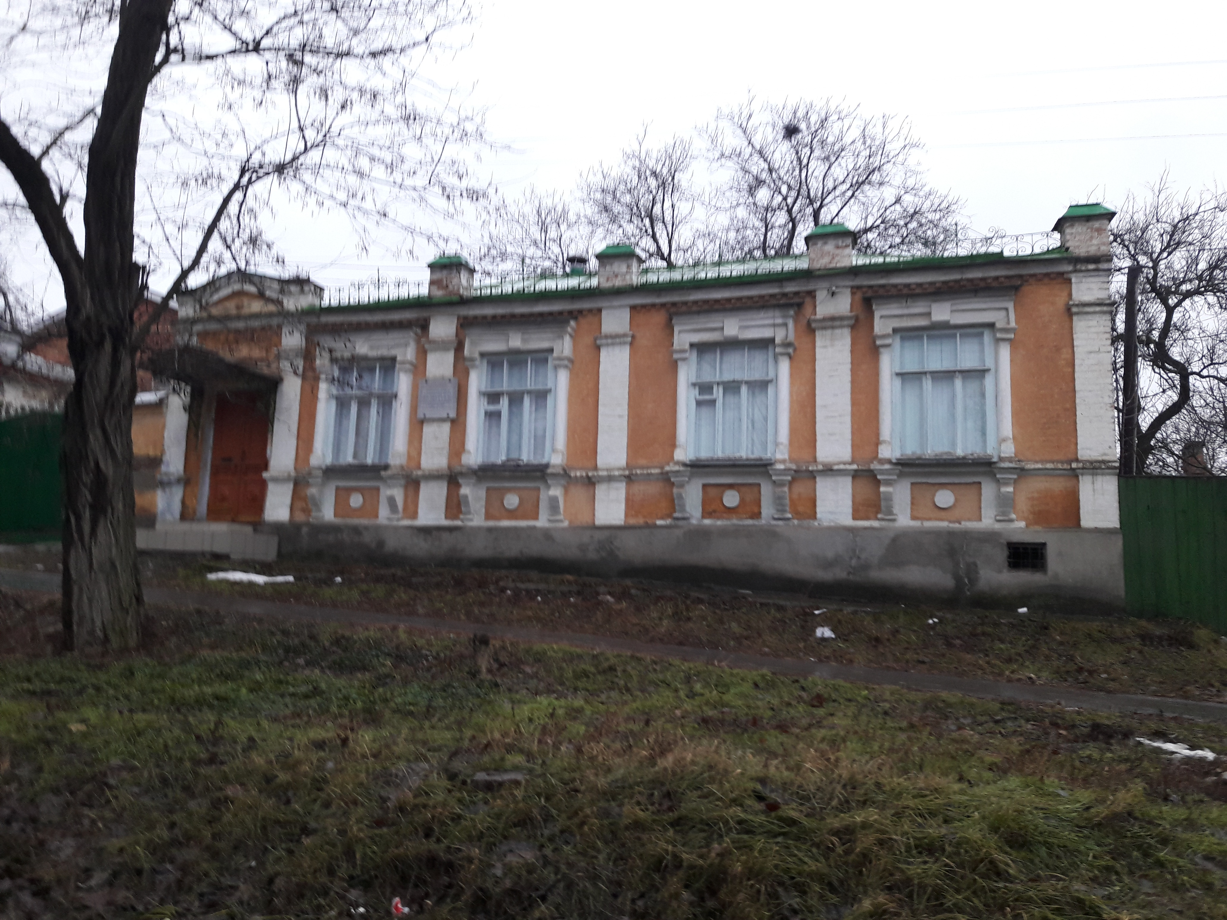 House in Novocherkassk where lived Lengnik